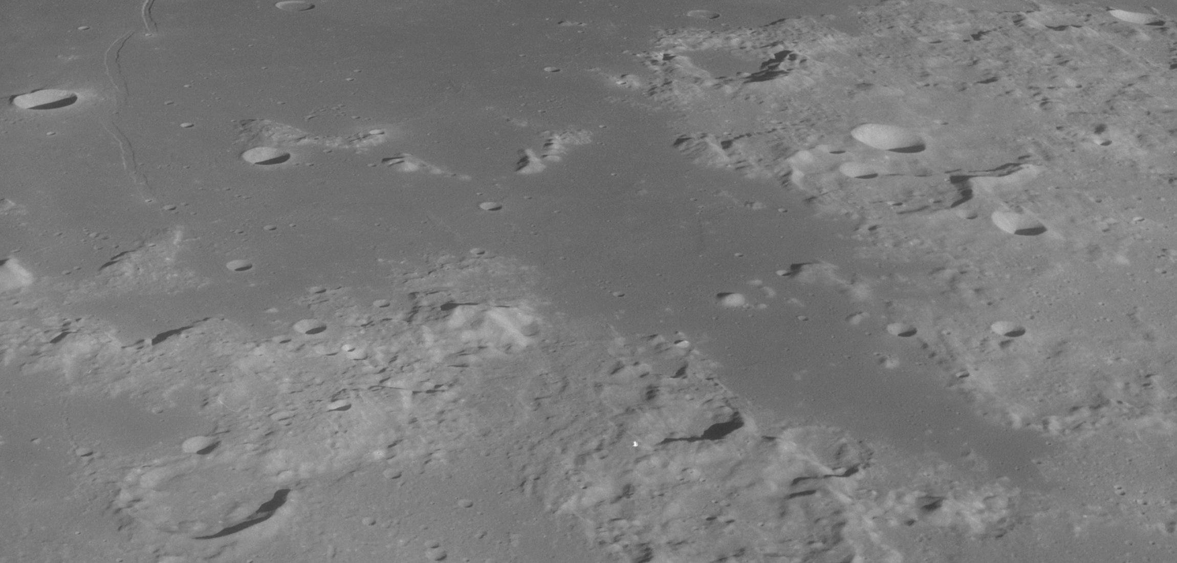 Oblique view of Sinus Concordiae, a "bay" of Mare Tranquillitatis, on the moon, facing west. Lyell crater is at top, right of center, and Couchy crater is in upper left.